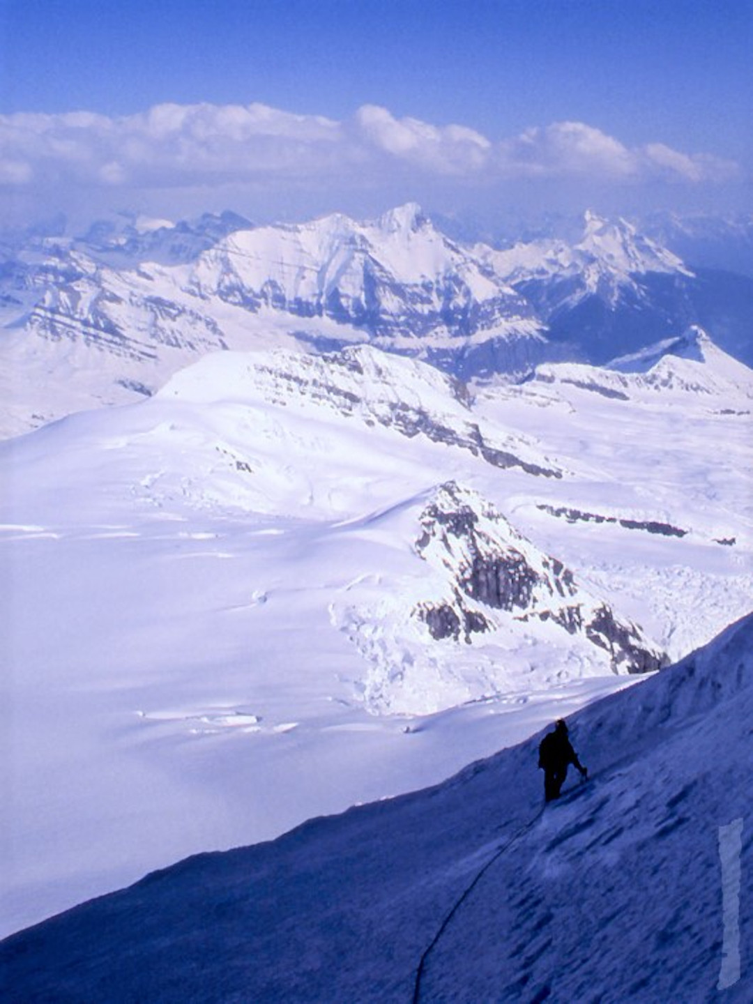 About 2/3 way up Columbia's East Face and time for a photo-op. Mt. Bryce is the imposing mountain in the centre partly on the horizon (Shark Ridge obscures its base). Doug, at the end of the rope, had a damaged crampon, so was climbing with only one.